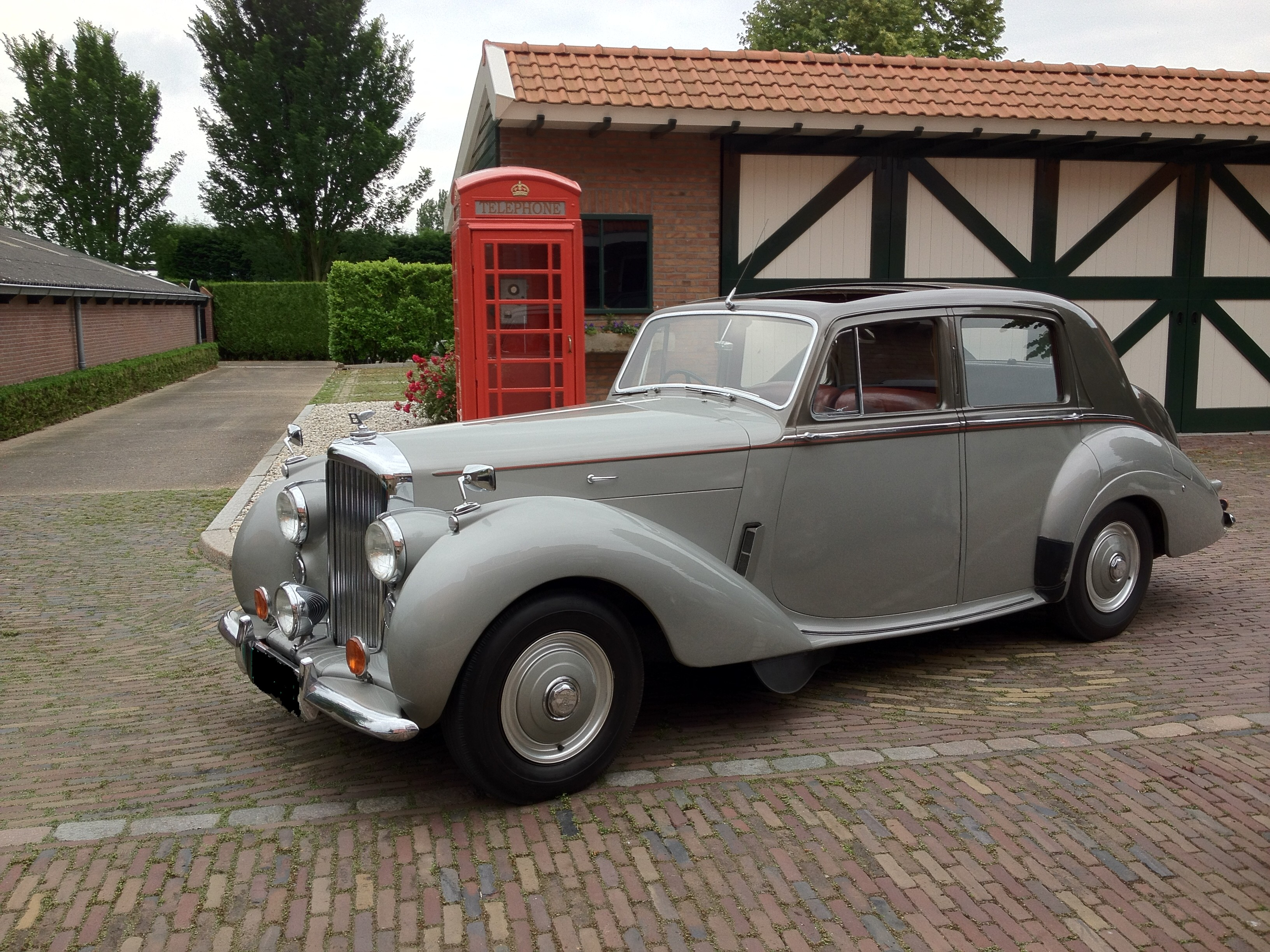 Bentley R-Type standard steel saloon 1953 Today I had a 250 km drive in this 1953 Bentley R-Type. She behaved flawlessly and will be for sale shortly.